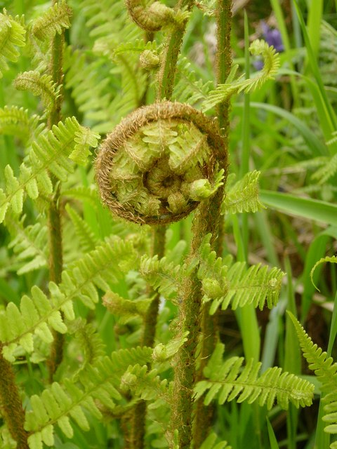 Unfurling fern. A simple fern, but still of extraordinary beauty.